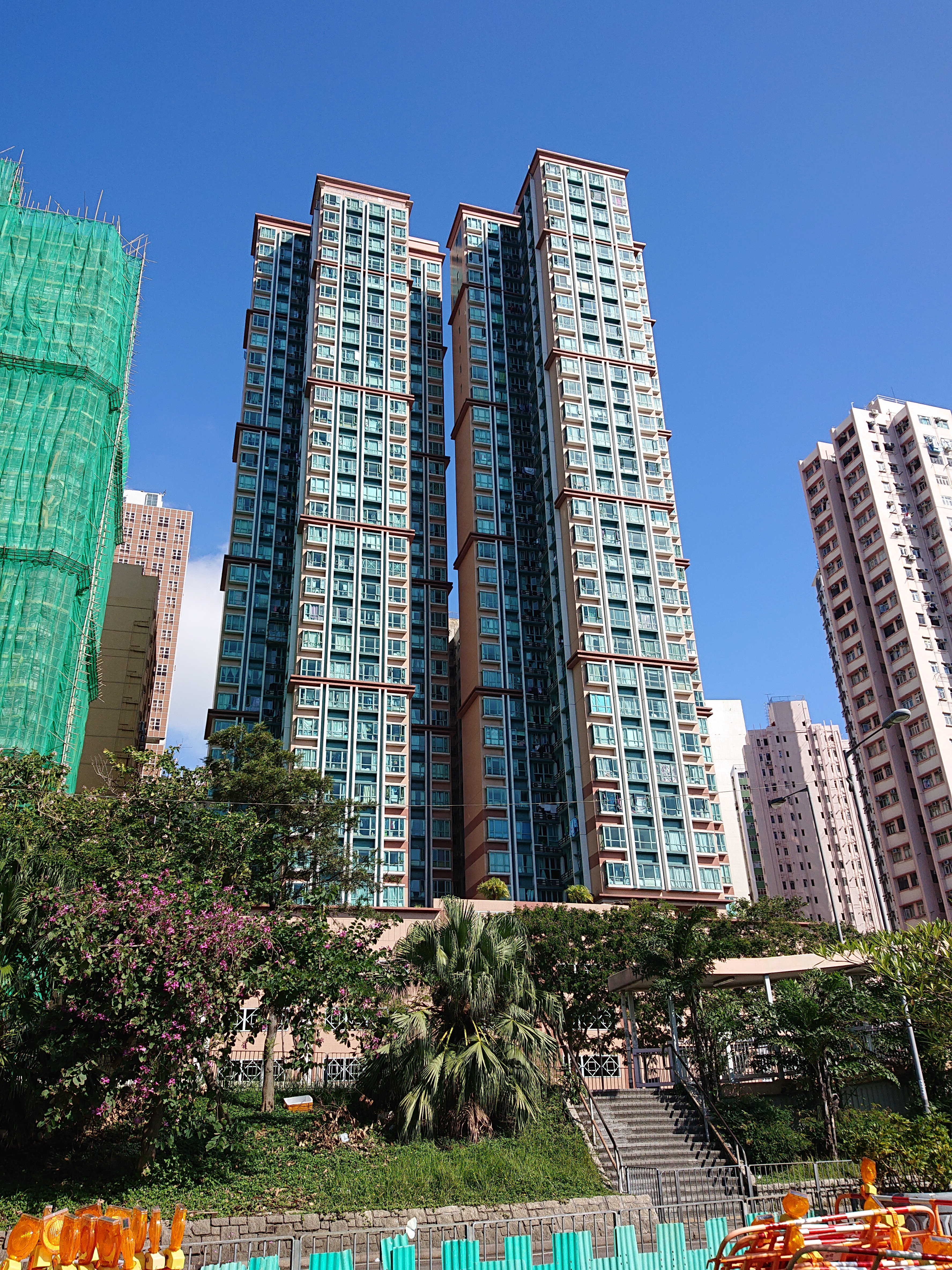 Waterfront South